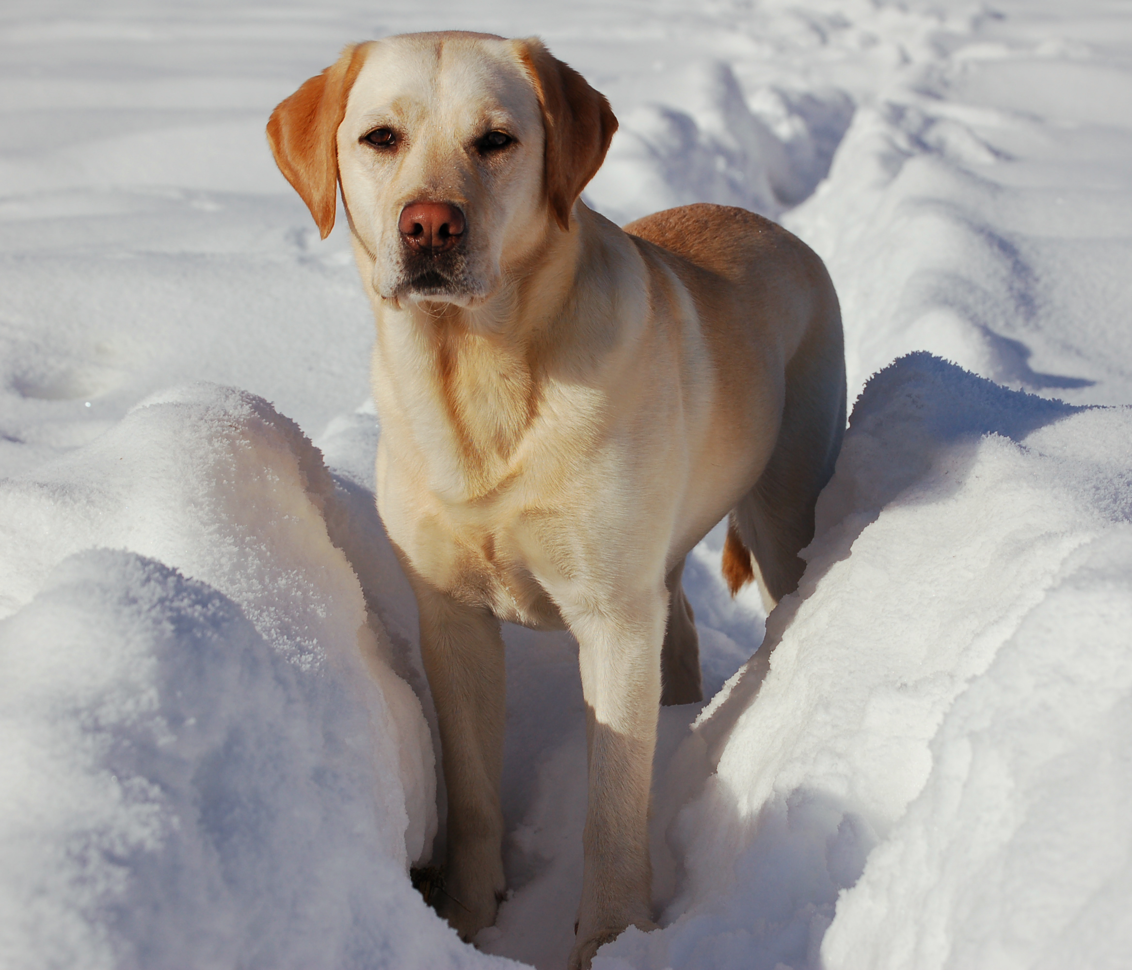 A Labrador Retriever in the snow.